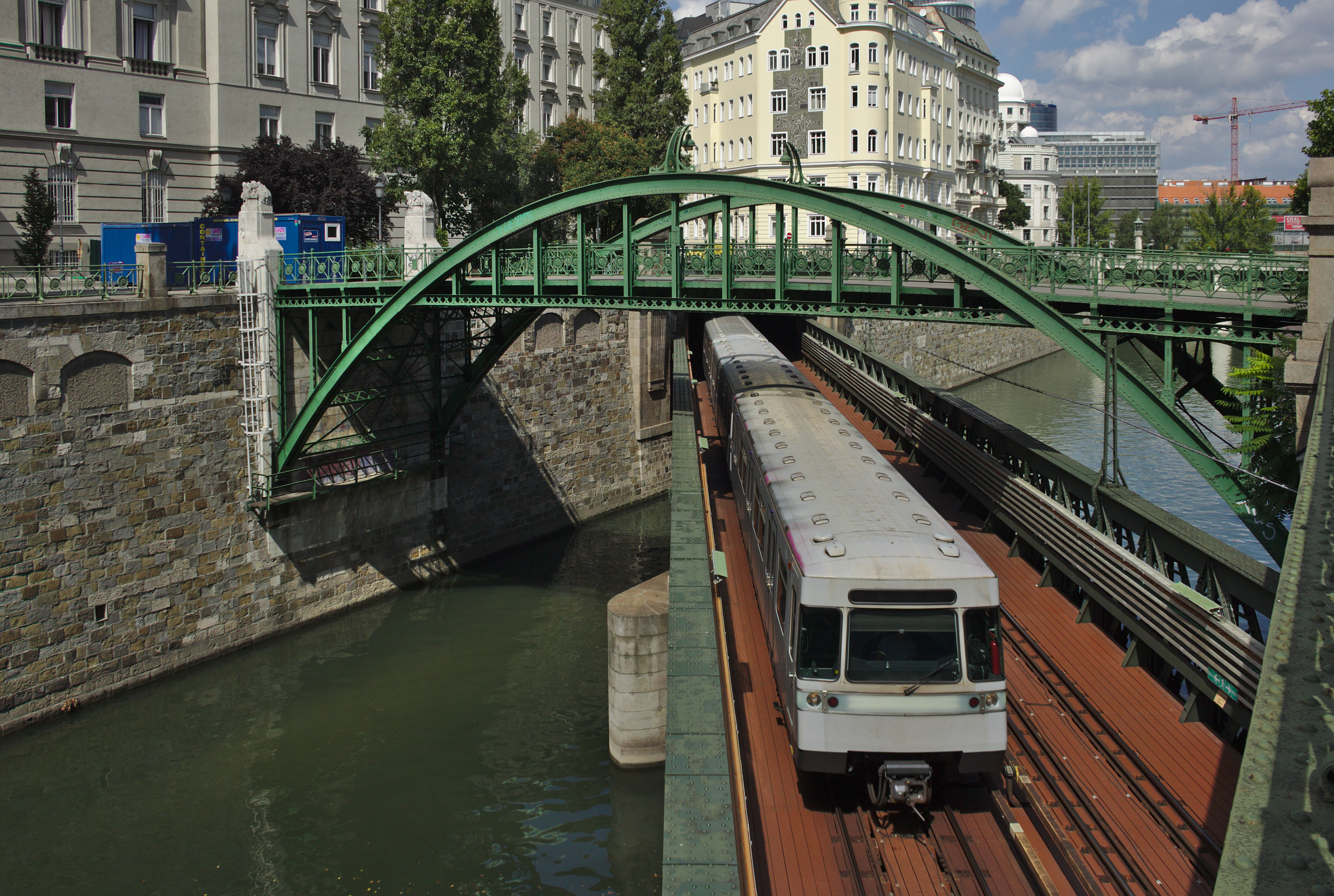 Bridge Zollamtssteg and subway bridge across River Wien in Vienna, Austria